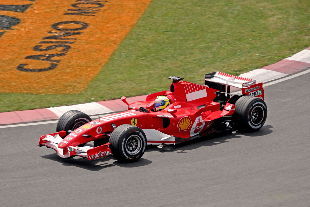 Felipe Massa driving for Ferrari at the 2006 Canadian Grand Prix.